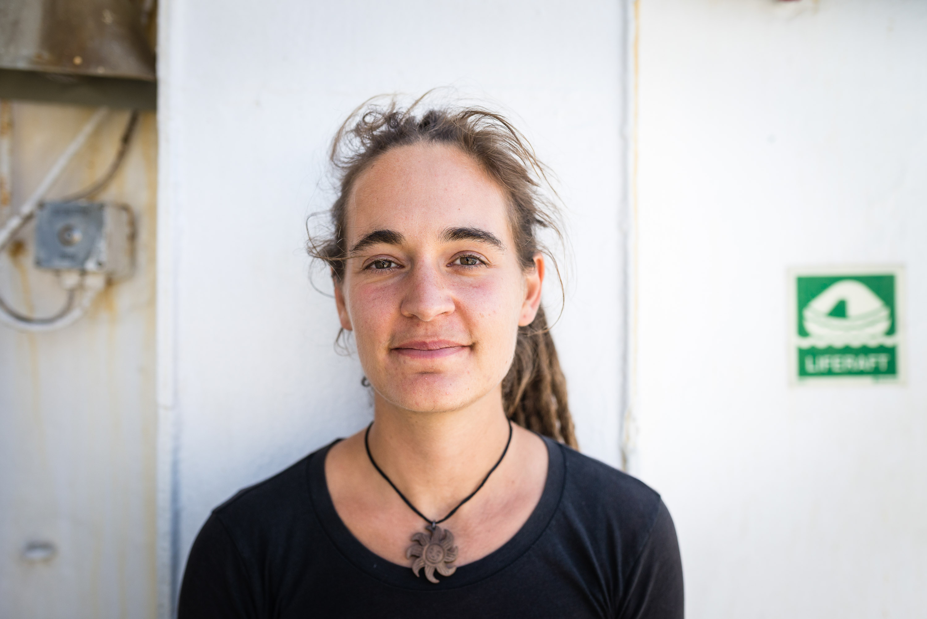 Captain Carola Rackete aboard Sea-Watch 3 in Malta.